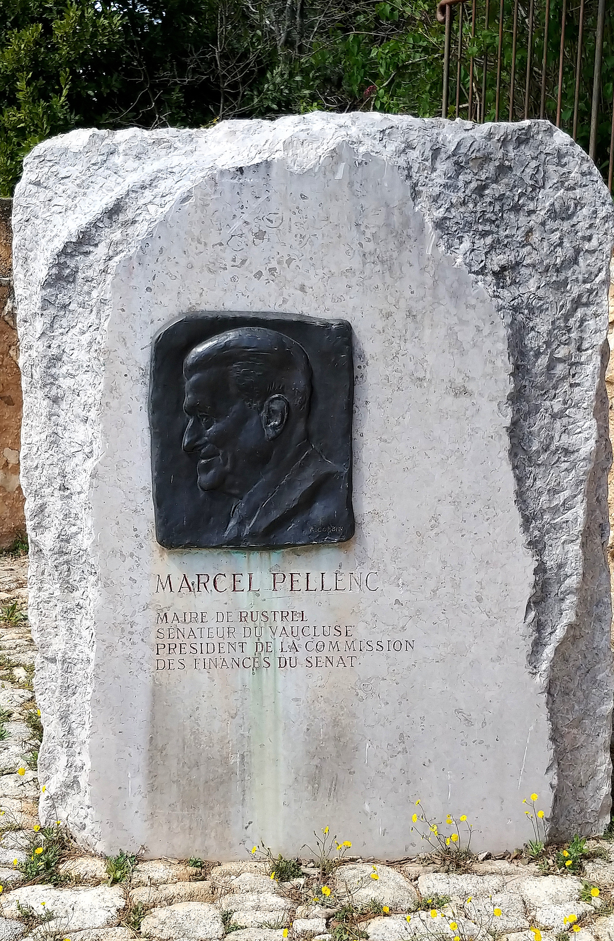 Marcel Pellenc Monument in Rustrel in Provence